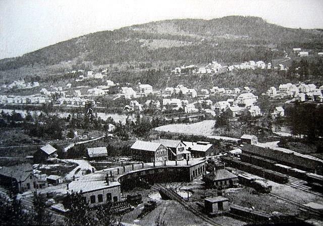 View of the Rumford Falls & Portland Railroad roundhouse and Mexico, Maine